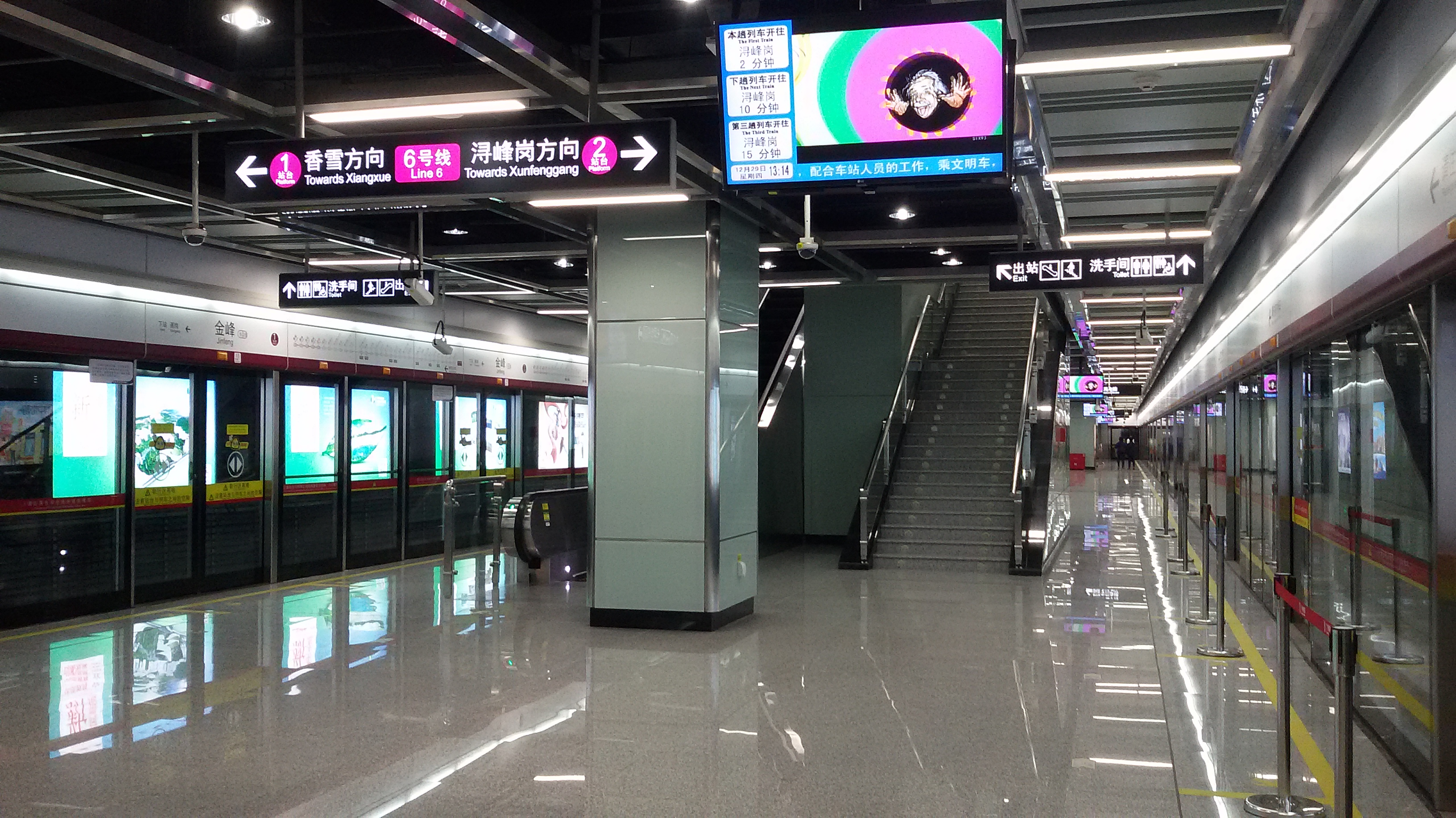 Station Platform for Jinfeng Station in Guangzhou Metro.